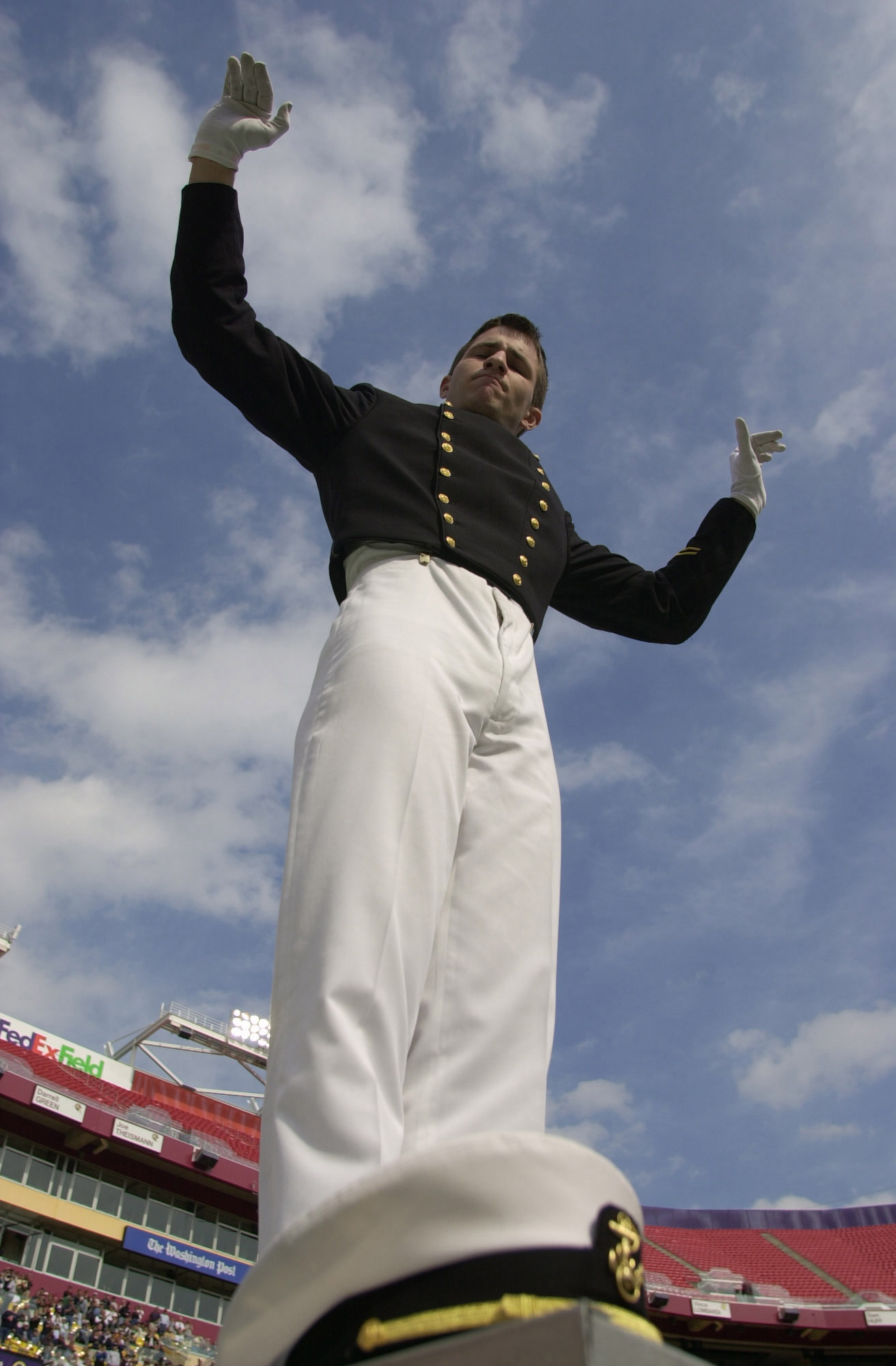 Landover, Md. (Oct. 4, 2003) Mid'n 2nd Class John Weier, 20, of Palmdale, Calif., leads the Naval Academy's Drum and Bugle Corps during halftime. Navy upset Air Force 28-25 in the inter-service game at FedEx field in Landover, Md. The Midshipmen snapped a six-game losing streak to the Falcons with the victory. The victory put Navy in excellent position to win the Commander-In-Chief's Trophy, awarded to the team with the best record in games between the three major service academies. The trophy will be up for grabs when Navy plays Army Dec. 6. U.S. Navy photo by Journalist 1st Class Mark D. Faram (RELEASED)